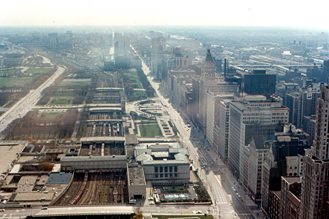 Looking south from the Prudential Building. Michigan Avenue is on the right, and Lake Shore Drive on the left. Grant Park covers much of the left side of the photo. The classical building in the foreground is the Art Institute of Chicago.